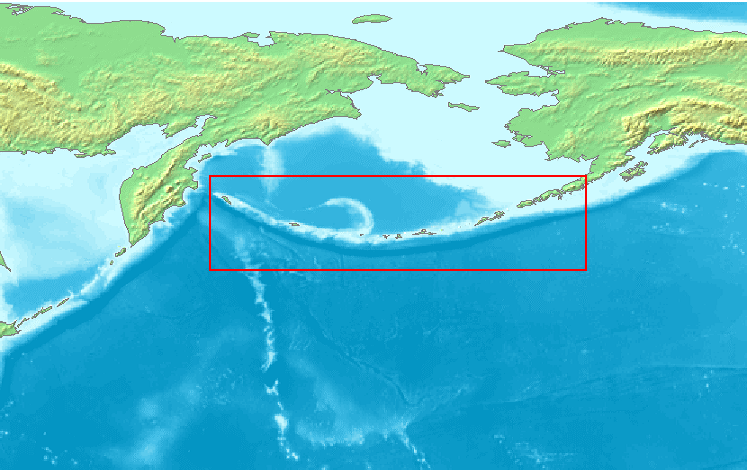 Aleutian Islands